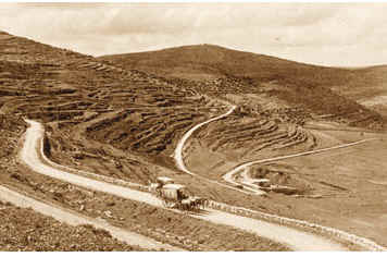 Maale Levona, Samaria, Israel